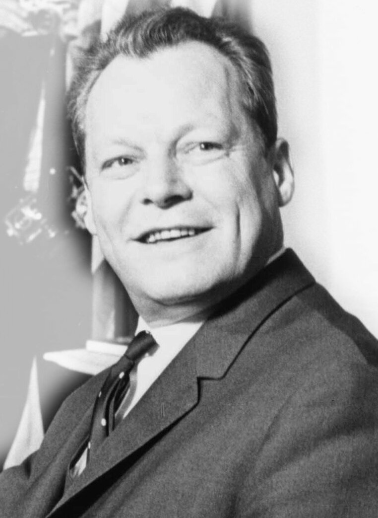 Willy Brandt.